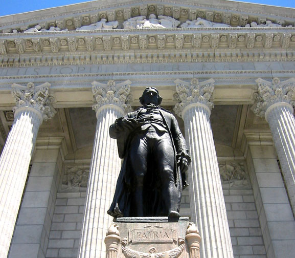 Statue of Thomas Jefferson, Missouri State Capitol (south side)